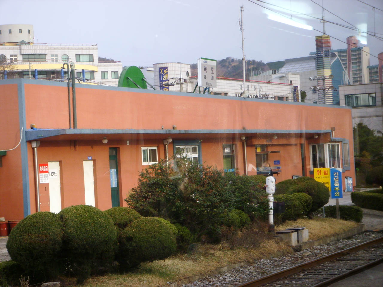 Yeongdong Line Mukho Station